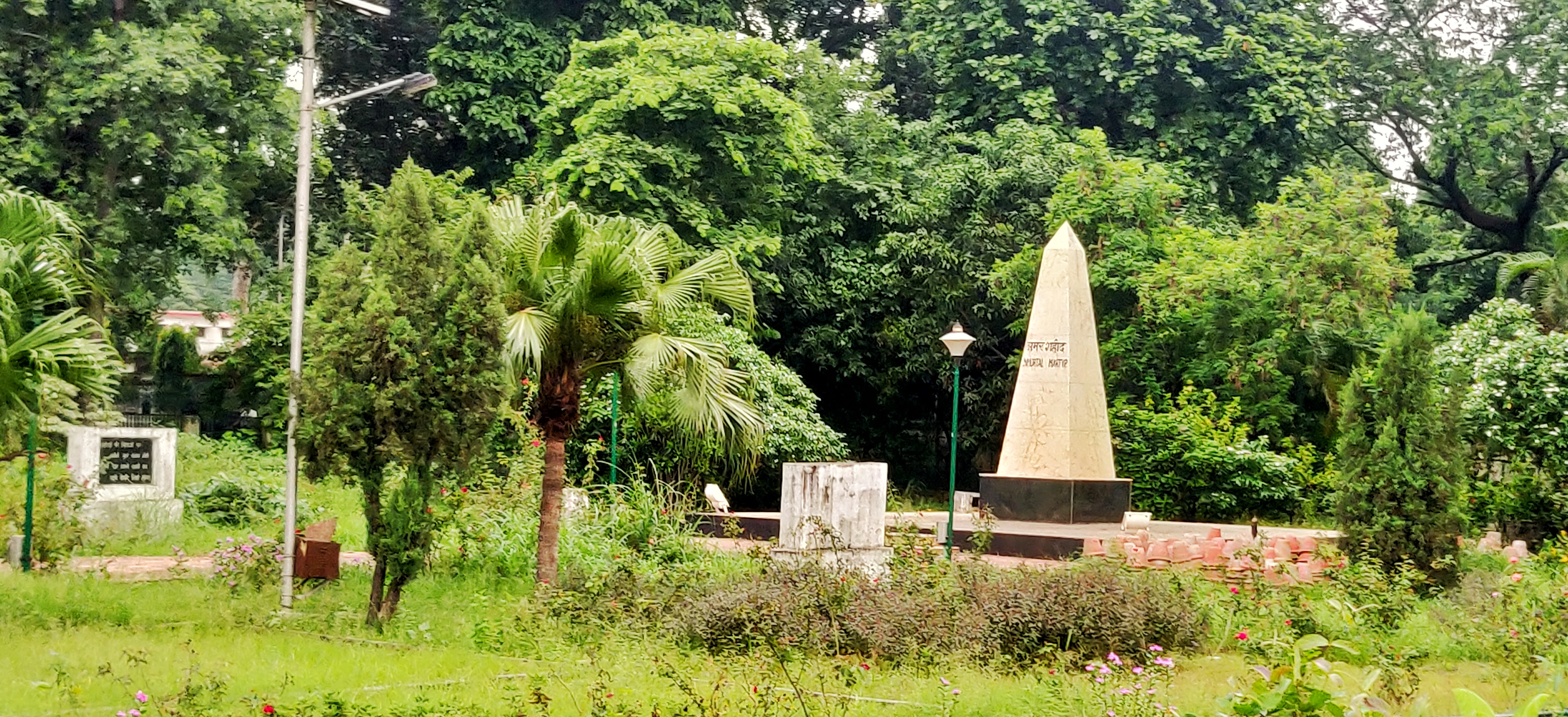 Phool Bagh Bareilly Memorial